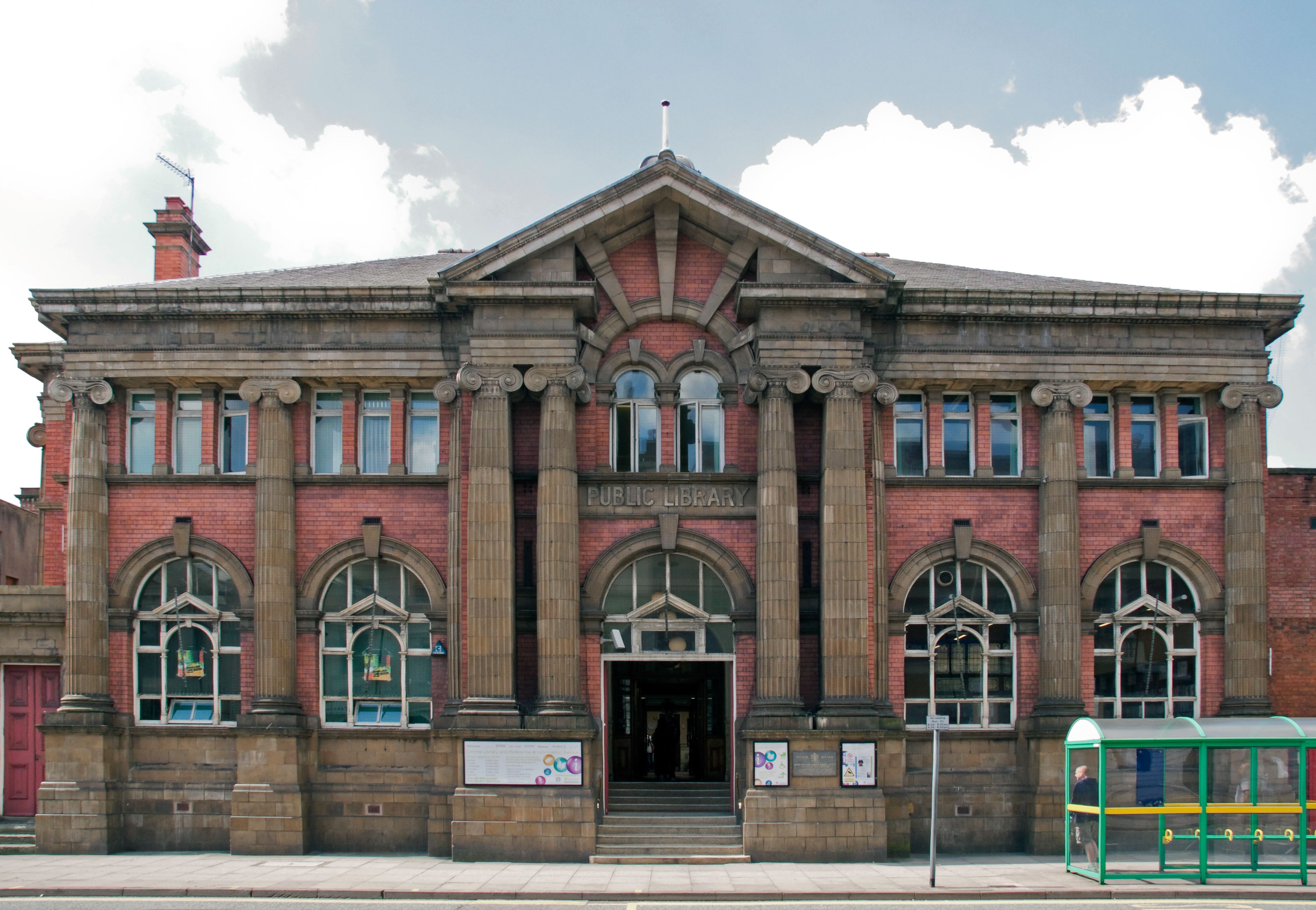 West Bromwich Public Library, West Midlands, England.